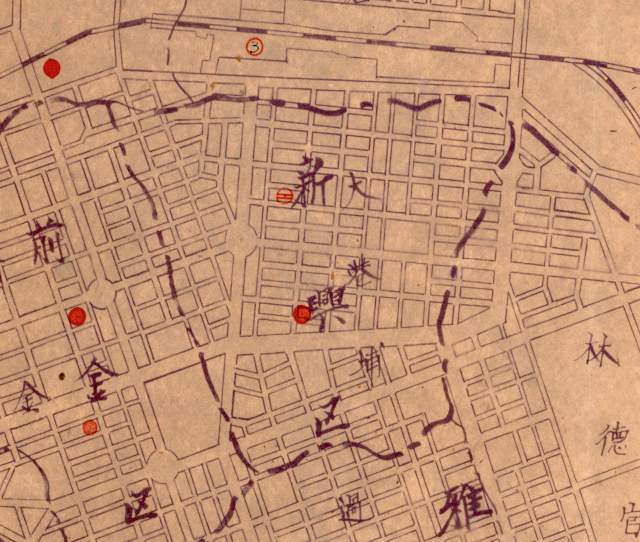 Toa-kang-po and surrounding areas from a 1946 map